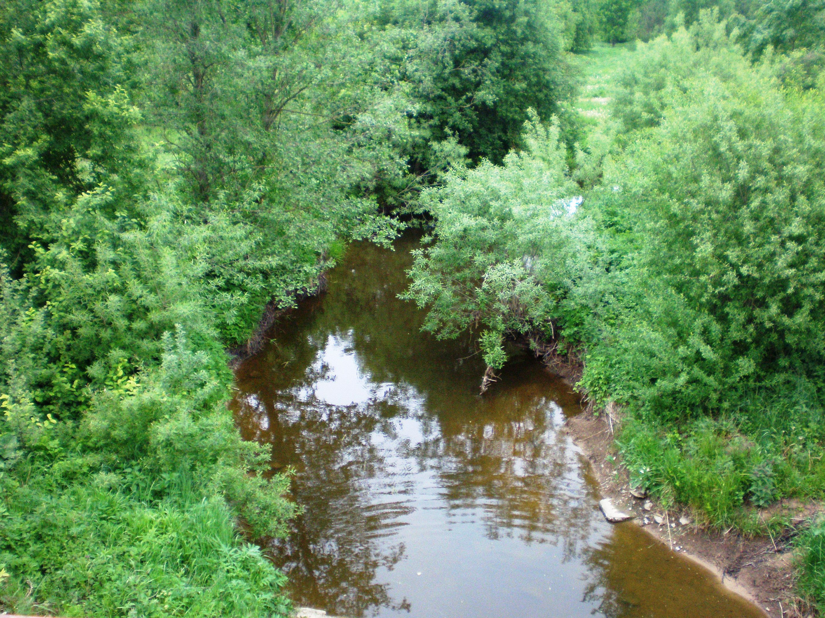 Gynėvė River in east from Ariogala. Lithuania